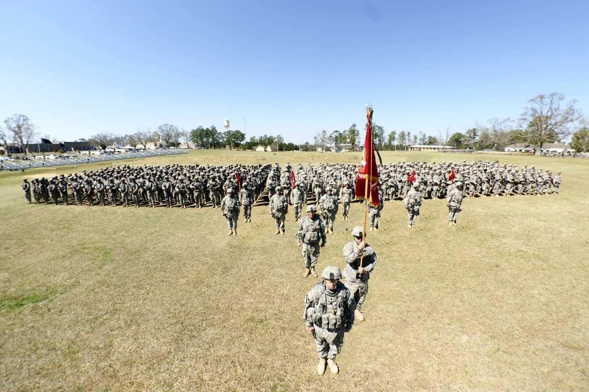 1st Battalion, 206th Field Artillery on Parade before departing Camp Shelby Mississippi, March 2008